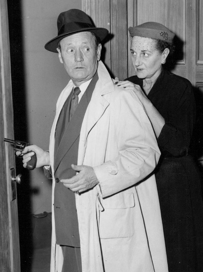 Roscoe Karns as Rocky King, is surprised by a hand on his shoulder from wife Mary Karns.